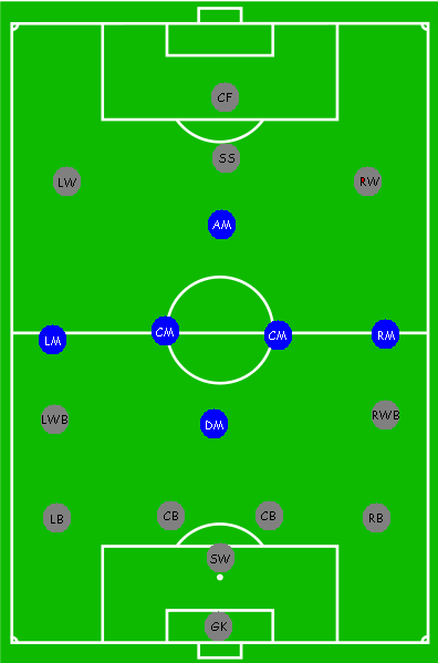 Base image (the pitch) - Image:Boisko.svg by User:MesserWoland Positions added by User:Tiresais